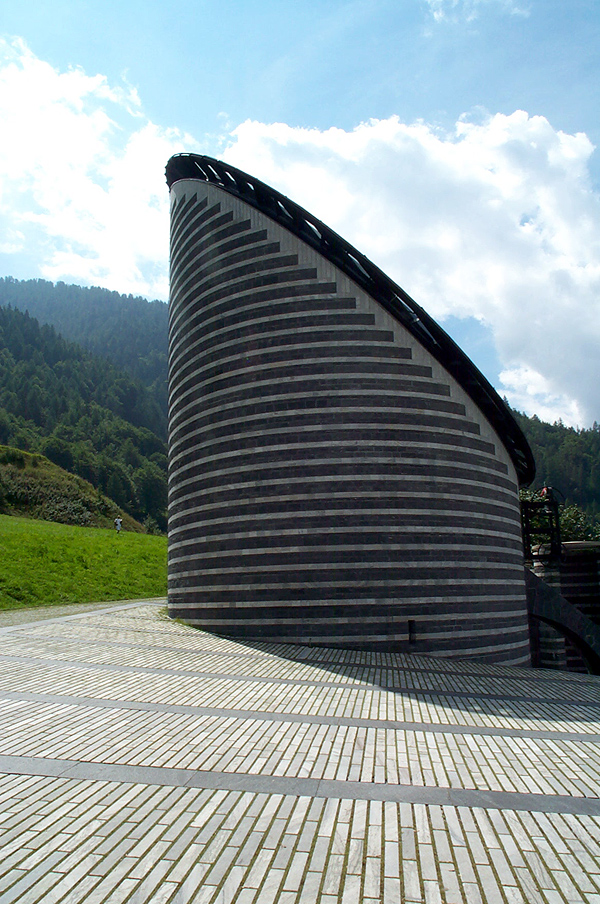 Chiesa di San Giovanni Battista in Mogno (municipality of Lavizzara in Switzerland)